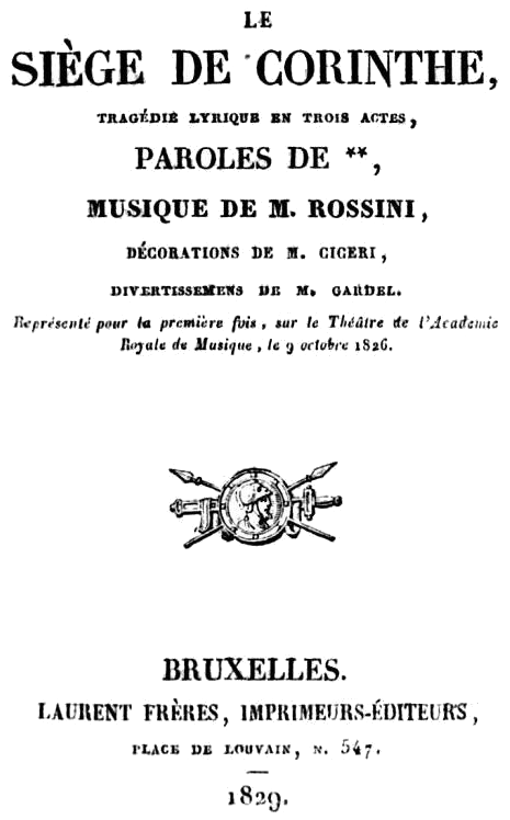 Gioachino Rossini - Le siège de Corinthe - Brussels 1829